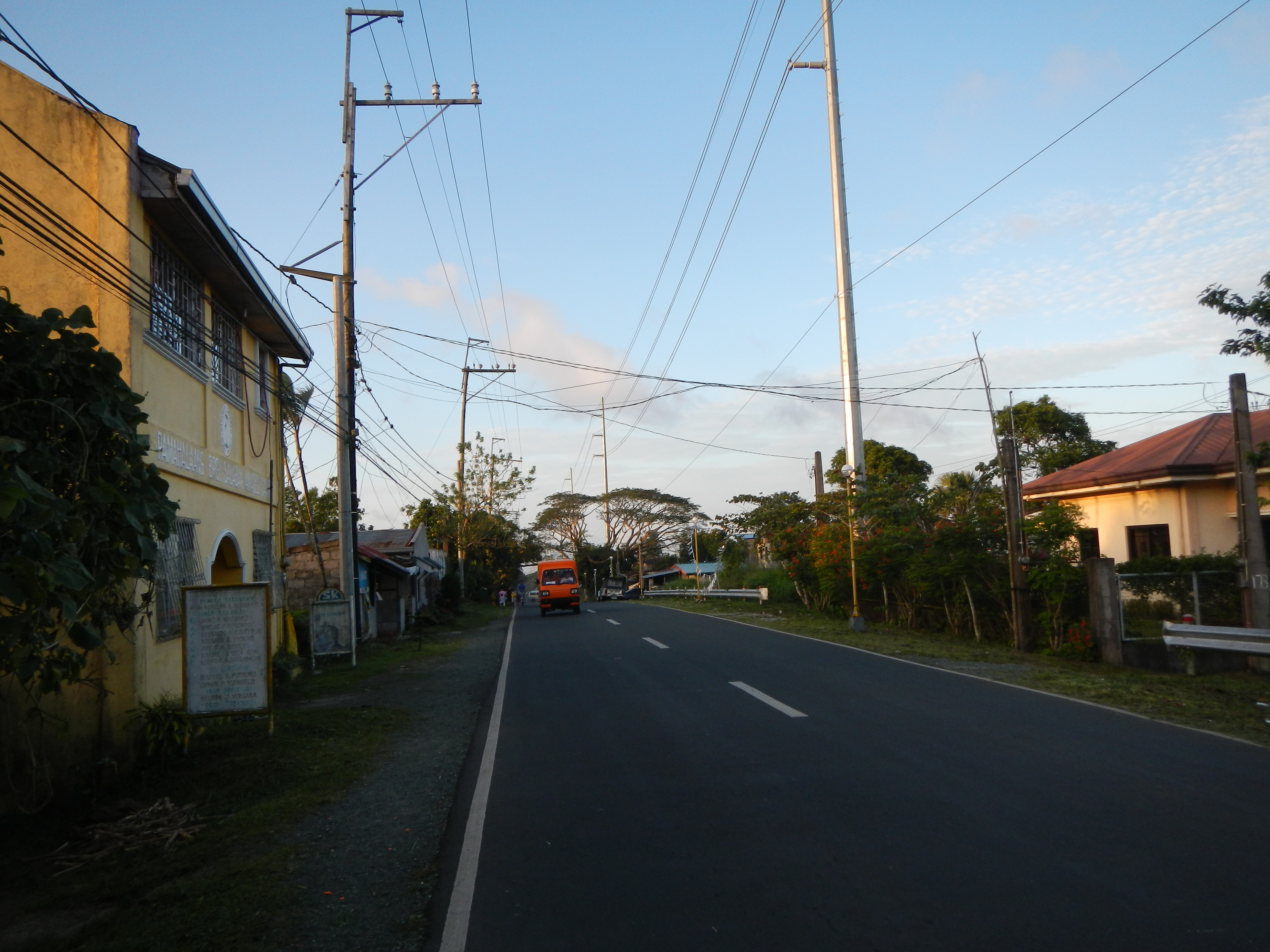 Upload Wizard photos of the a) Amadeo Municipal Hall Complex (including the Flag pole, beside the Covered Court and in the middle of the Town plaza, the 1st and 2nd floor of the Town hall of), - Amadeo, Cavite [1] at Poblacion, downtown, Town Proper, Centro, and in front of the Heritage church - b) May 1, 1884 founded, Saint Mary Magdalene Parish Church of Amadeo, (Town Proper, its very beautiful Patio and surroundings in Poblacion, Amadeo, Cavite [2] - which belongs to the Roman Catholic Diocese of Imus[3] [4] [5] formerly District 5, Vicariate of Our Lady of Candelaria - now Vicariate of The Seven Archangels - Tagaytay City, Mendez, Indang, Amadeo, Alfonso, and General Aguinaldo Vicar Forane: Rev Fr. Luisito C. Gatdula Vicarial Representative: Rev. Fr. Hermenegildo M. Asilo), and the c) A. Soriano or Amadeo National Road and Highway with its Coffee statue Welcome gateway to Amadeo Town Proper, and facing its neighbor, Tagaytay City, Cavite, and the d) Governor Samonte Park with its baywalk and 13 Martyrs Monument in front of the blue sky, the deep blue to black sea and deepest Cavite Ocean, in Cavite City, Province of Batangas, this is a Heritage and Cultural treasure of Cavite recognized by the NCCA and NHI.